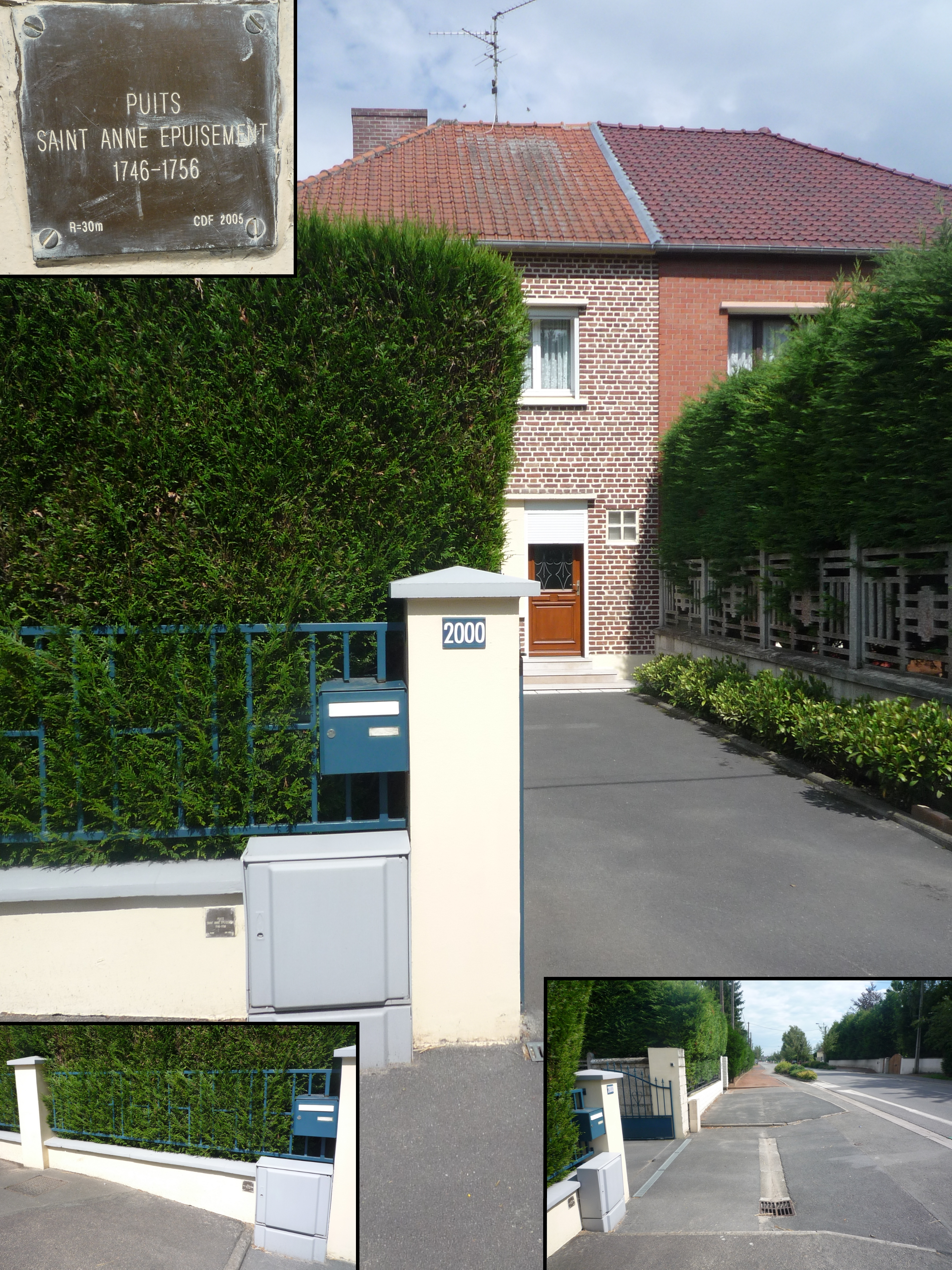 Pit Sainte Anne Épuisement at Fresnes-sur-Escaut, Nord, Nord-Pas-de-Calais, France